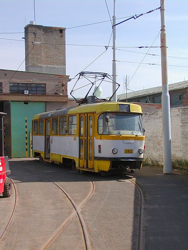 Tatra T3 tram in Plzen